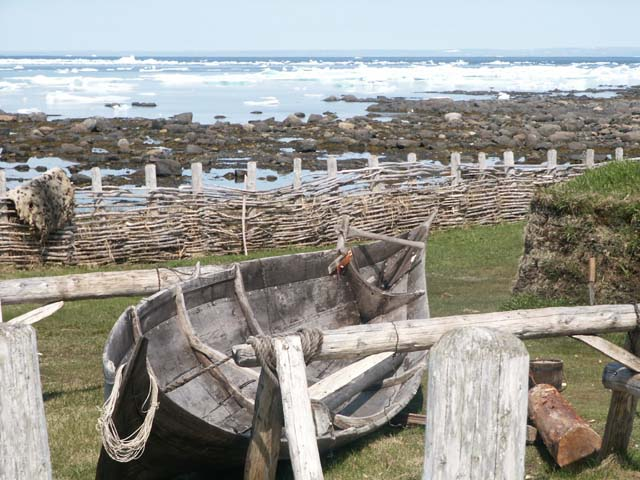 The first official day of summer at L'Anse-aux-Meadows, Newfoundland, Canada The site of early viking colonisation in L'anse aux Meadows in the northwesternmost corner of the island of Newfoundland PD user:carlb from a June 2002 travel photo